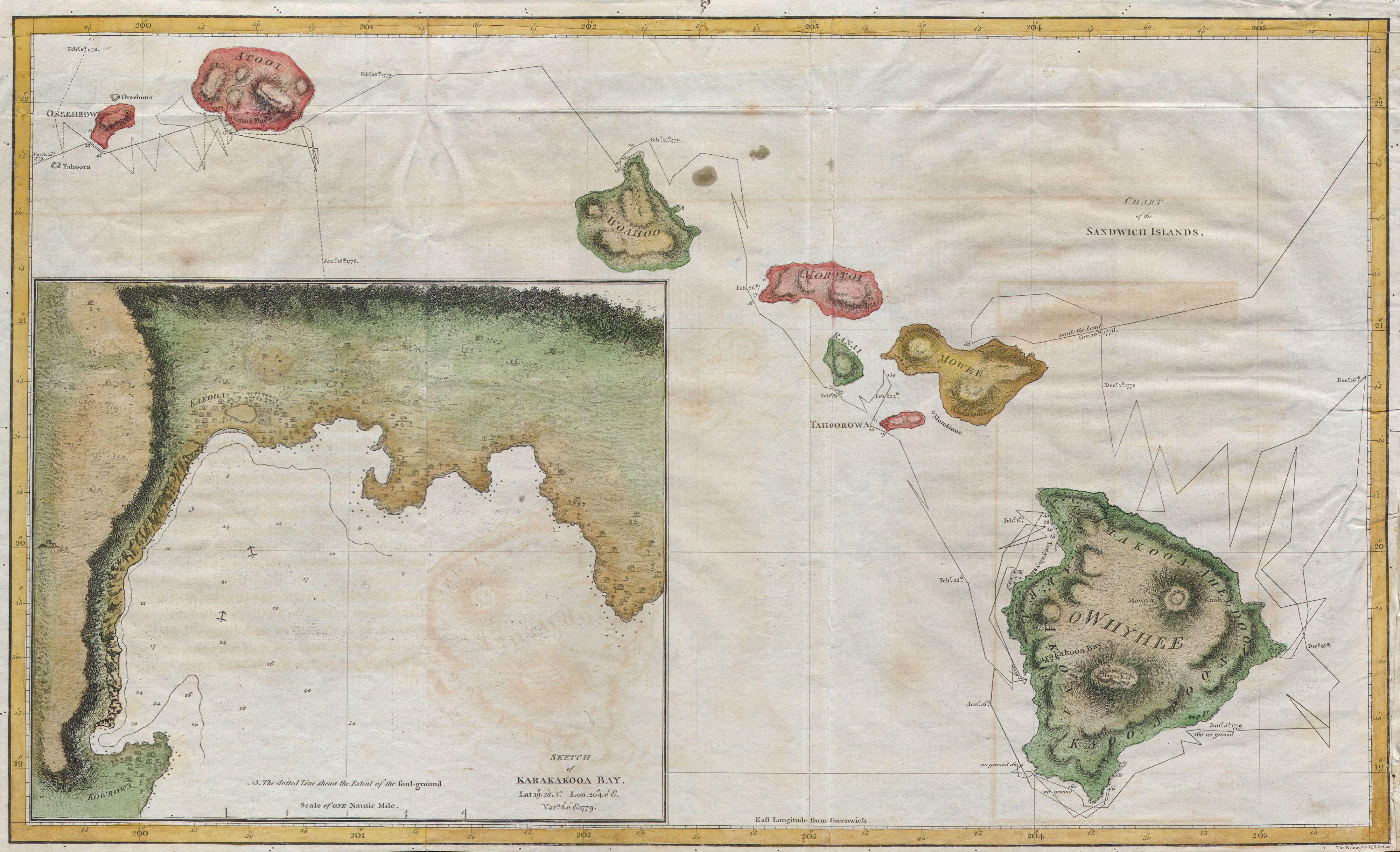 Offered here is an extraordinary and important map of the Hawaiian Islands (Sandwich Islands) printed by G. Nicol and T. Cadell for the 1785 edition of Captain James Cook and James King’s, A Voyage to the Pacific Ocean…in the Years 1776, 1777, 1778, 1779, and 1780. Some claim this map was drawn by William Bligh, of Mutiny on the Bounty fame, while he was stationed as midshipman on Cook’s fateful third voyage to the South Pacific. Others claim that this map was drawn by Henry Roberts – the Hydrographer of Cook’s third expedition. The text of the Third Voyage credits Roberts, however, the British Hydrographical Office copy of the Official Account includes Bligh's journal where he claims to have drawn the maps. In the lower left there is a large inset of Karakakooa Bay and the villages there. It was here that Cook was killed by angry Hawaiians. This map represents a seminal moment in Hawaii cartography and is the basis upon which all subsequent maps of Hawaii were drawn.